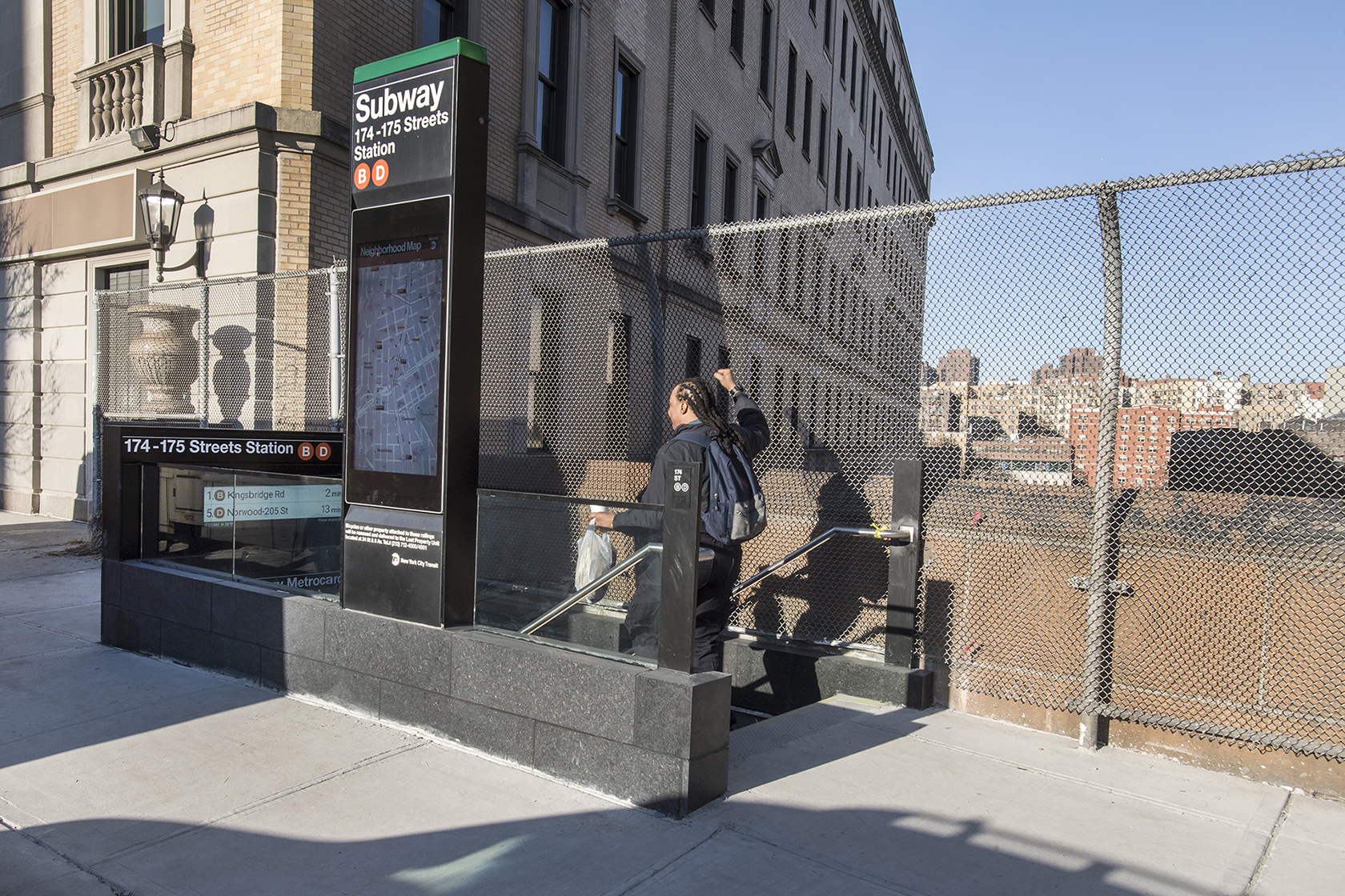 MTA New York City Transit performed major station repairs and upgrades at the 174-175 Sts station on the Grand Concourse line, reopening the station in December 2018 after less than 6 months of repairs. The station now has new, brighter lighting throughout, a modernized turnstile area, new electronic signage and digital screens, enhanced station entrances and newly commissioned artwork by MTA Arts & Design. This station originally opened for service in July 1933. Photos: Metropolitan Transportation Authority / Pat Cashin